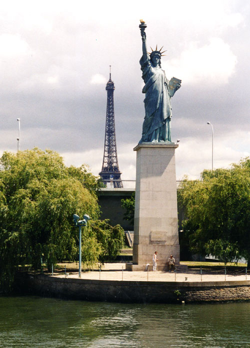 The small Statue of Liberty on the river Seine in Paris, France. The Statue of Liberty in New York is much larger. It faces west, towards its American sister.